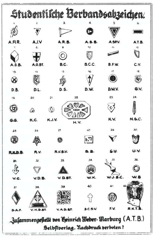 sign of student organizations